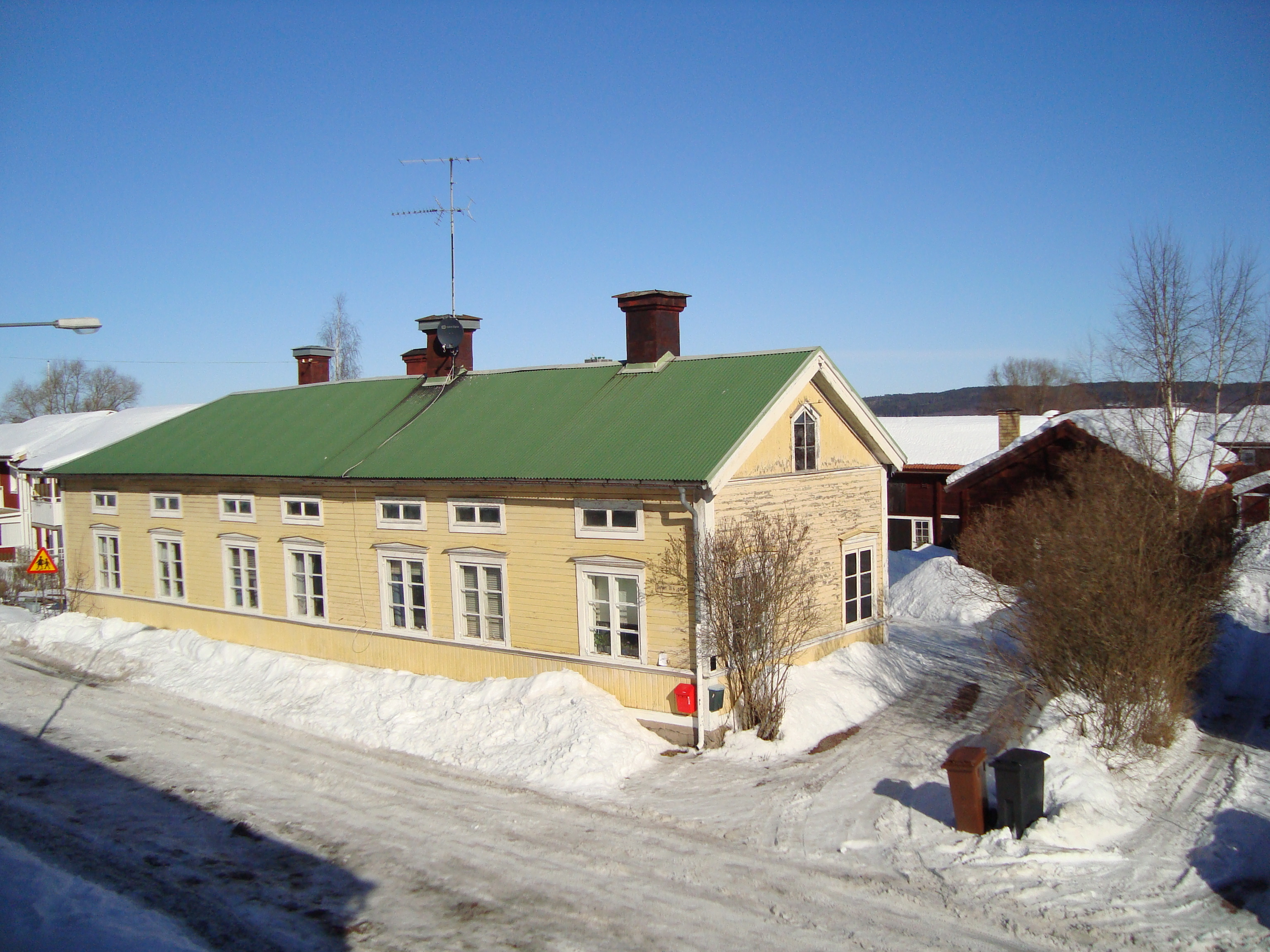 "Lilla Gråbergsgården" or simply "Gråbergs", one of the oldest lots in Hedemora, Sweden